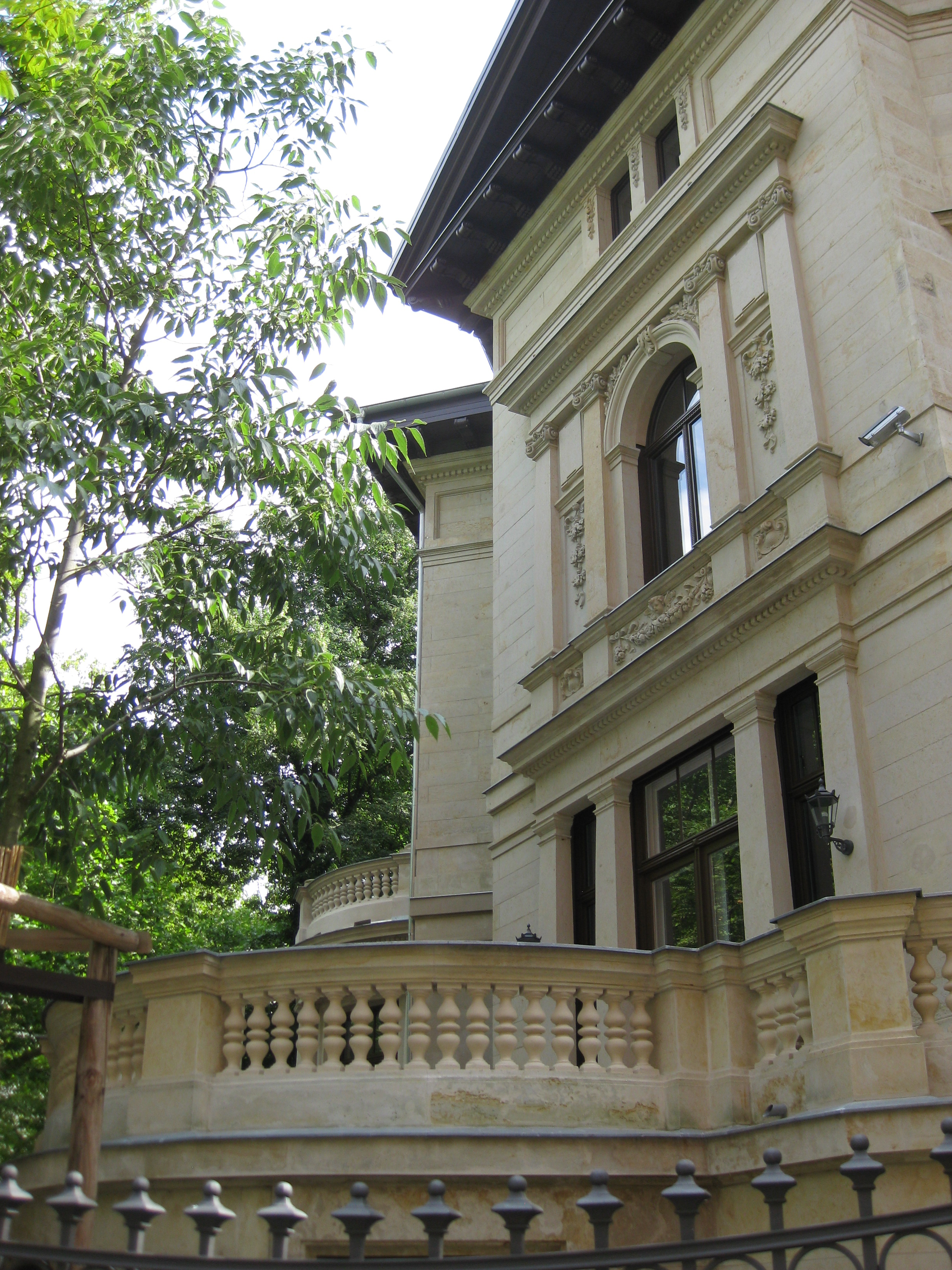 Sieskind Villa, Wächterstr.15, Leipzig, 2013